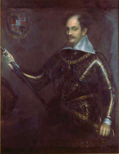 Portrait of Alessandro I Pico della Mirandola, Marquis of Concordia and Duke of Mirandola, in armor